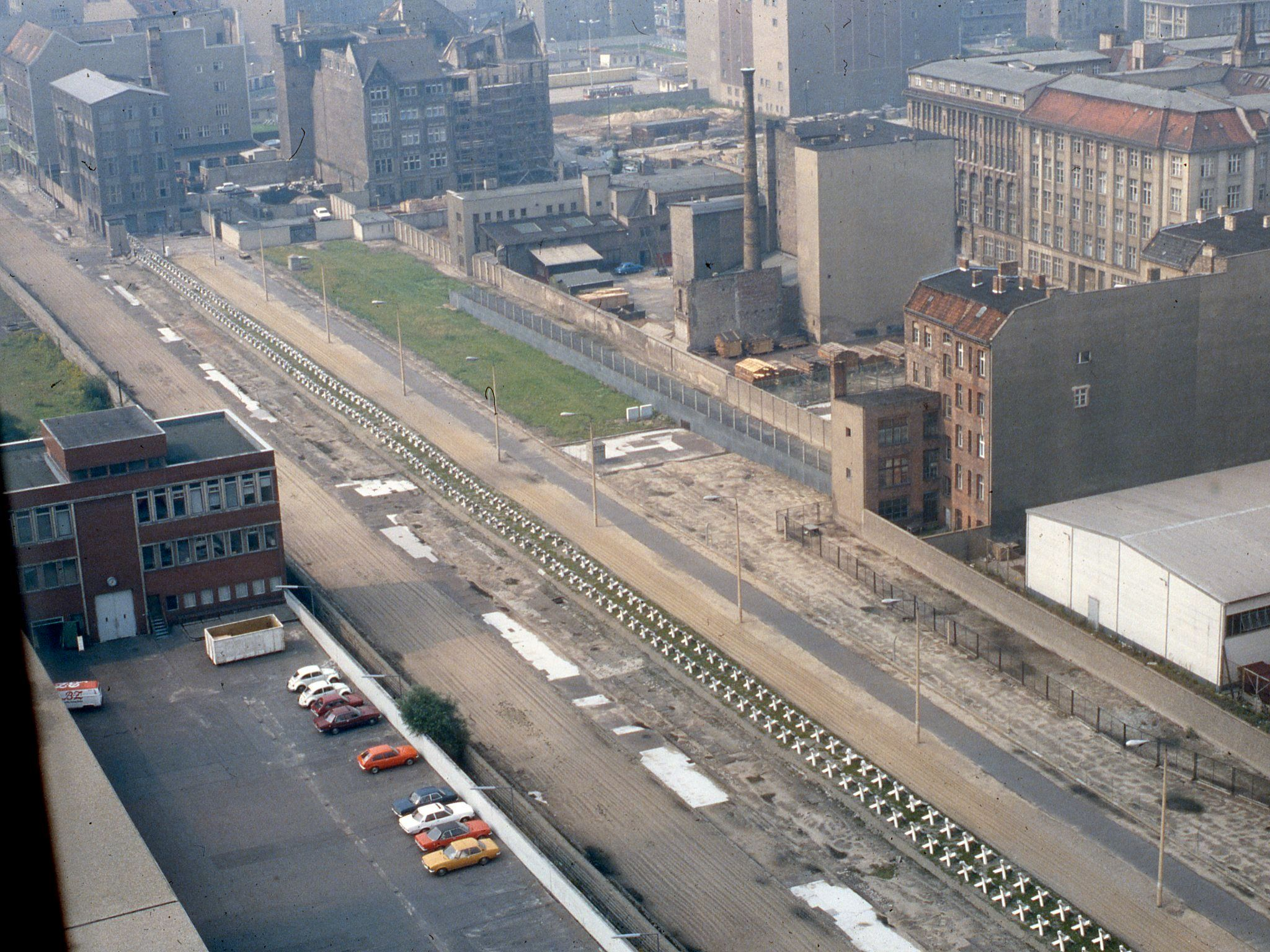 East Berlin Death Strip as seen from Axel Springer Building, 1984 Other information Photo by George Garrigues.